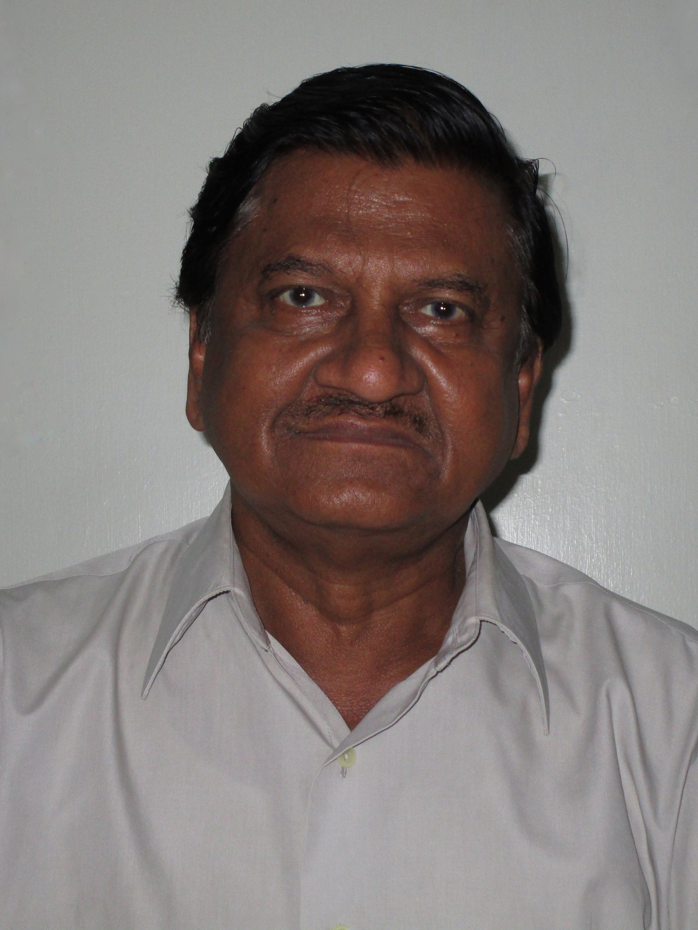 Abul Quasem Fazlul Huq on 23 February 2015